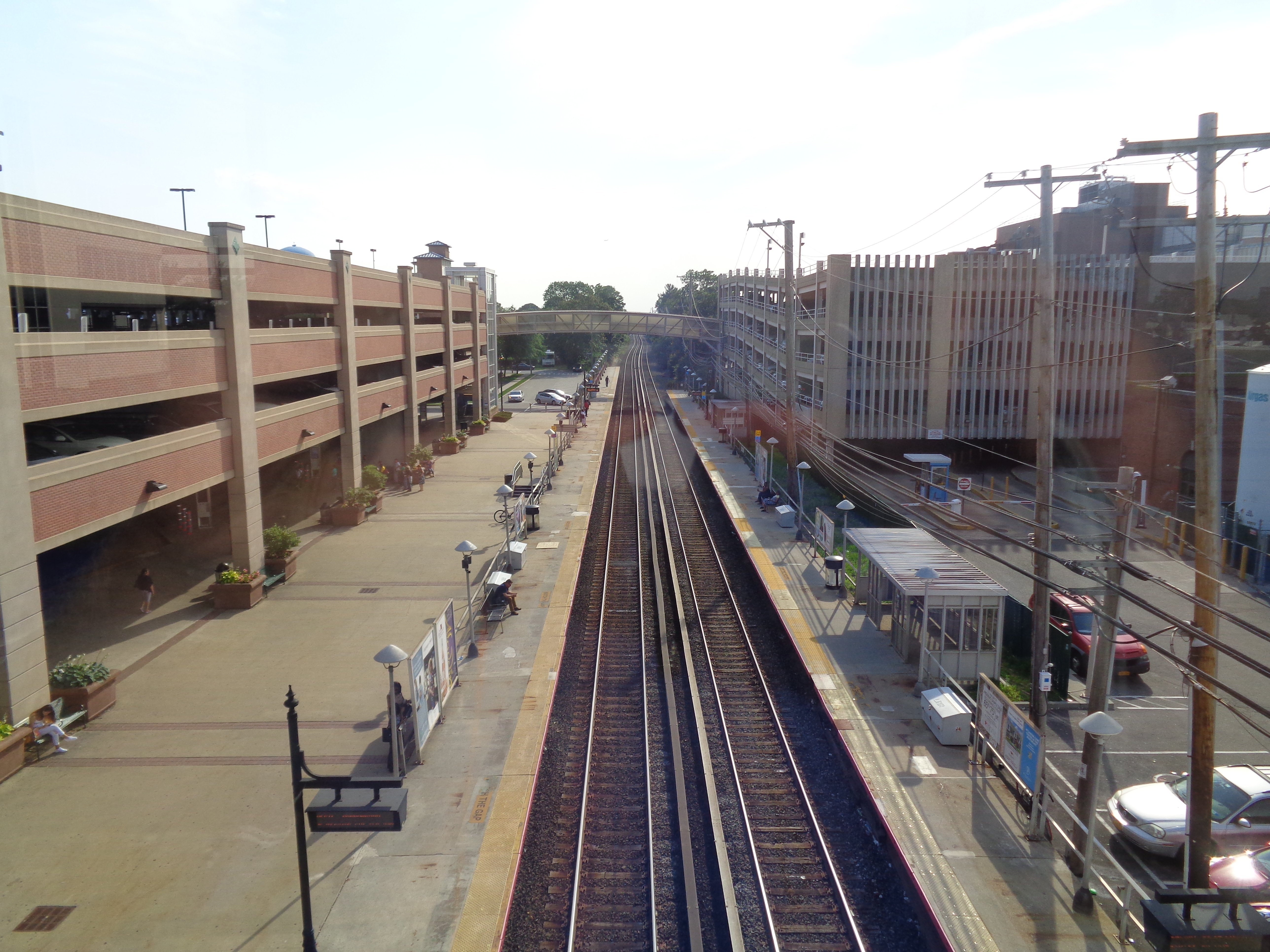 Looking down and west at the Mineola LIRR station in Mineola, New York, from the ADA-accessible footbridge.